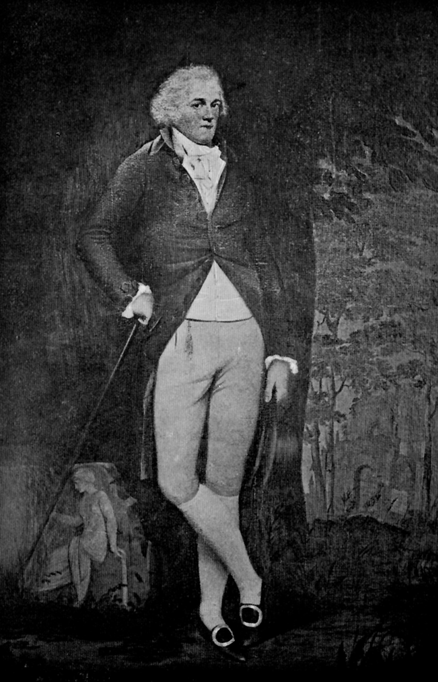 Portrait of Edward Austen (1767-1852), brother of Jane Austen